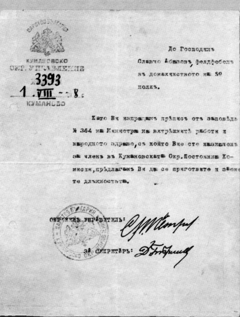 Letter from Kumanovo District Administration to Slavcho Abazov